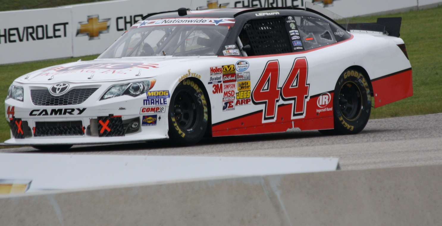 The NASCAR Nationwide car of Cole Whitt during the w:2013 Johnsonville Sausage 200 at Road America.